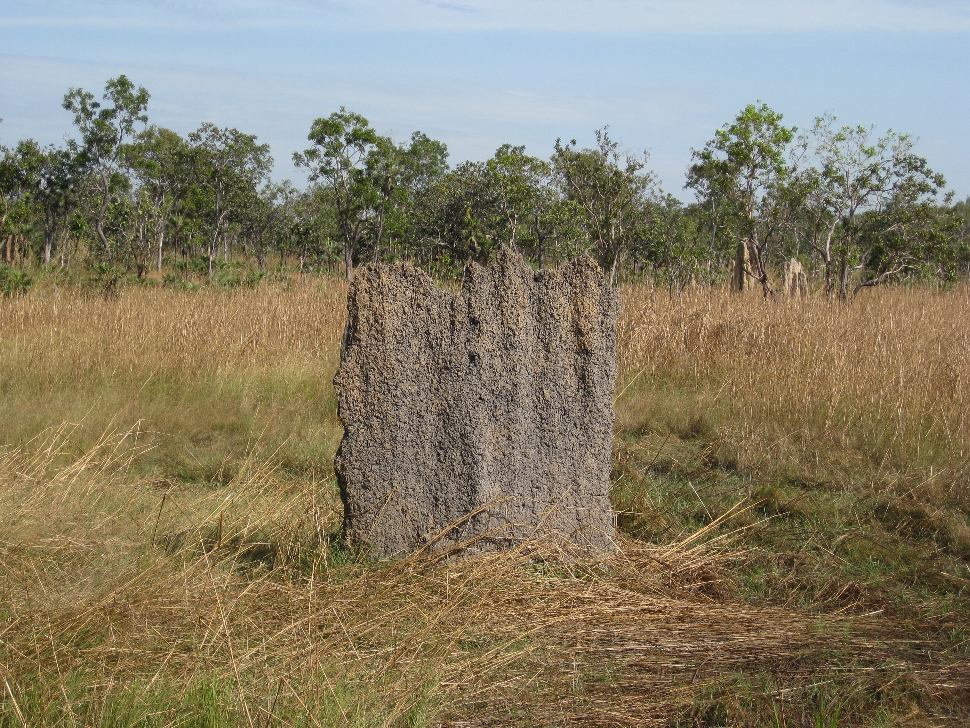 The biological significance of Magnetic Termite mounds The “Magnetic Termite” Amitermes meridionalis occurs only in a small part of the Northern Territory of Australia and builds famous wedge-shaped mounds with an elongated axis that is orientated in a striking north-south direction. This shape is unique among all other termite mounds which are always more or less spherical and many hypotheses have been advanced to explain the remarkable shape and orientation. Most of these investigations focus on the orientation, but the biological significance of the shape is rarely explored. The currently accepted hypothesis considers shape and orientation as adaptation to maintain a thermo stable eastern face. In contrast to this we consider habitat conditions, such as heavy rainfalls and regularly flooding in the wet season, as most important for the evolution of this shape. Kingdom:Animalia Phylum:Arthropoda Class:Insecta Subclass:Pterygota Infraclass:Neoptera Superorder:Dictyoptera Order:Isoptera Family: Termitidae Litchfield National Park, Northern Territory, Australia i09_0501 032